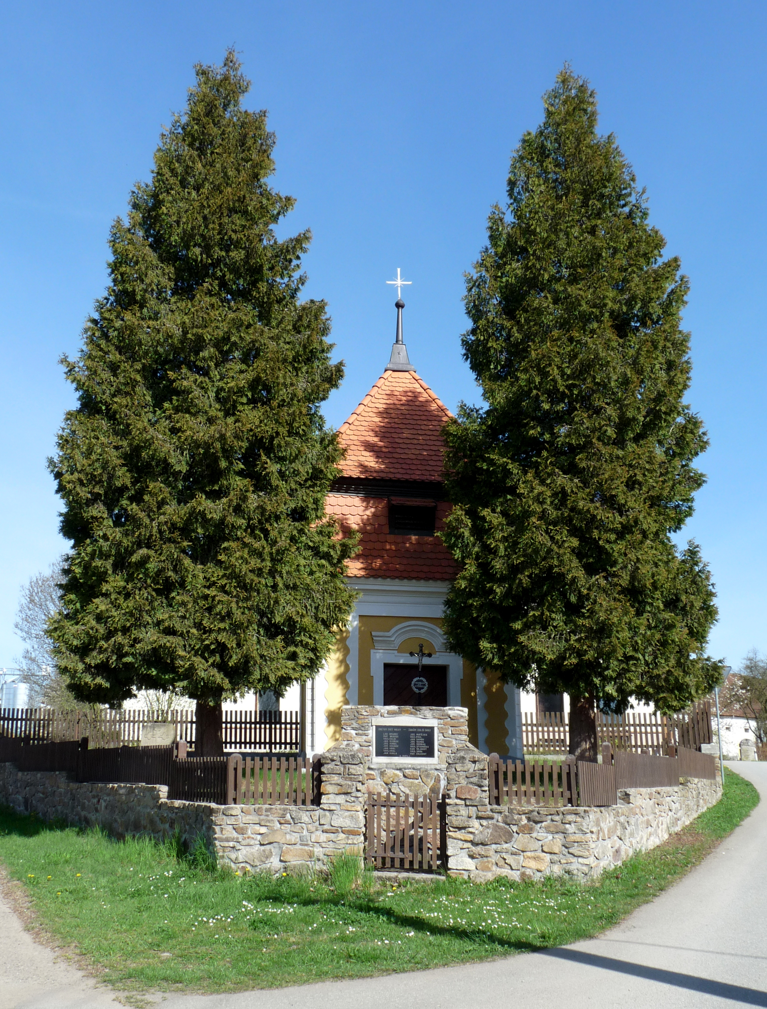 Chapel in the village of Lipice, part of the town of Pelhřimov, Pelhřimov District, Vysočina Region, Czech Republic.